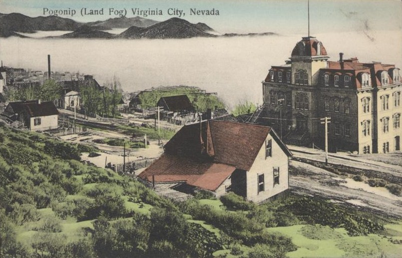 Postcard picture of "Pogonip" (ice fog) in Virginia City, Nevada